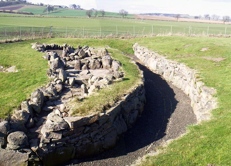 View of the Ardestie souterrain, Angus, Scotland